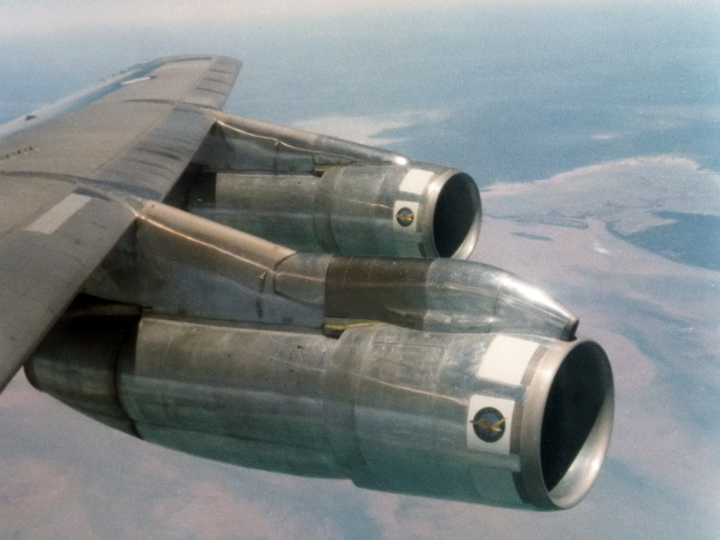 Rare In-Flight Window View (of Port P&W JT3D-3B engines) of RAAF 33 Flight Boeing 707-338C A20-624, crossing the West Australian coast (Kimberley) during an 8.5 hour flight to Butterworth Malaysia in 1980. (My first flight to BUT was in Qantas Boeing 707-338C VH-EAB, Cn 19622 in April 1977). Tanker-modified A20-624 also departed Canberra on 22May2008 for Butterworth, taking personnel to Commemorate the RAAF's 50th Anniversary there. A20-624 (formerly Qantas VH-EAD) was the last Boeing 707 in RAAF Service.